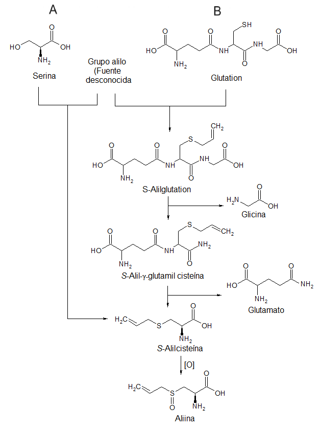 Biosynthetic hypotesis for aliine